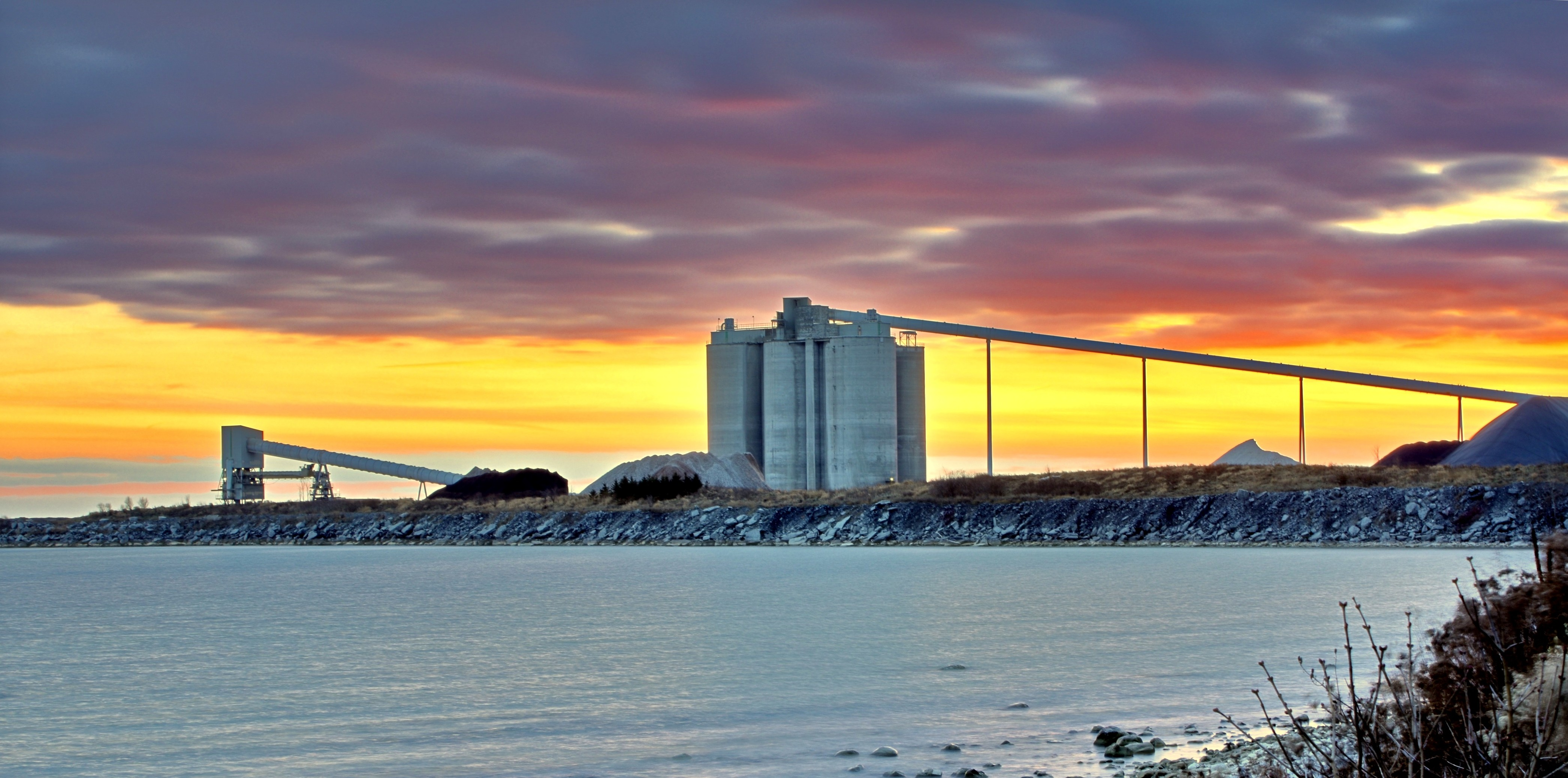 The Bowmanville limestone quarry & cement factory panorama.